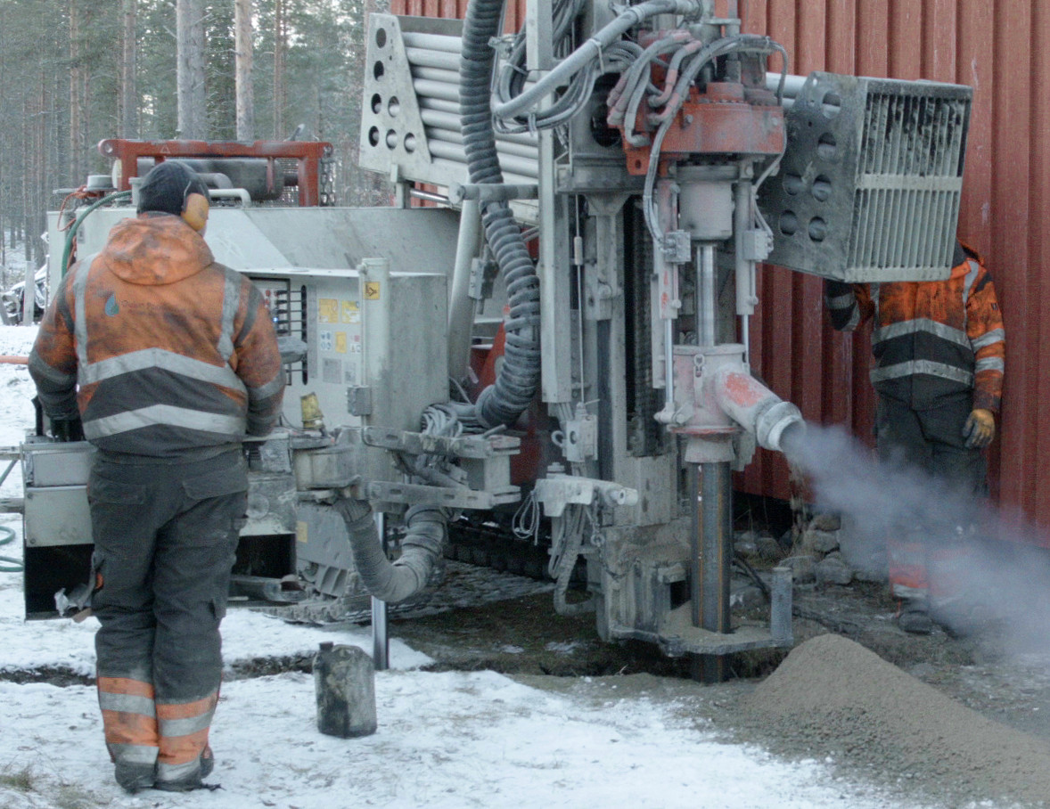 Drilling of a borehole for residential geothermal heating in Northern Finland